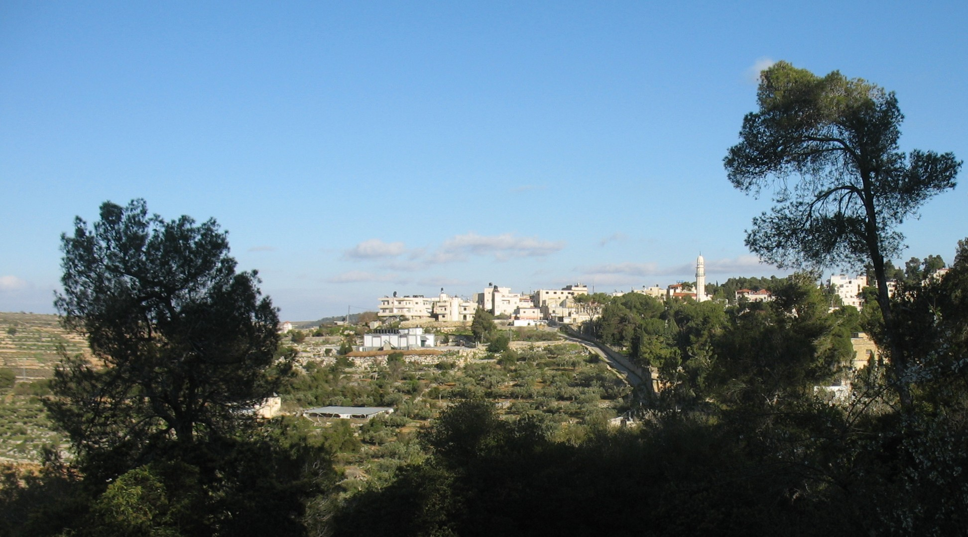 View of Qubeiba.